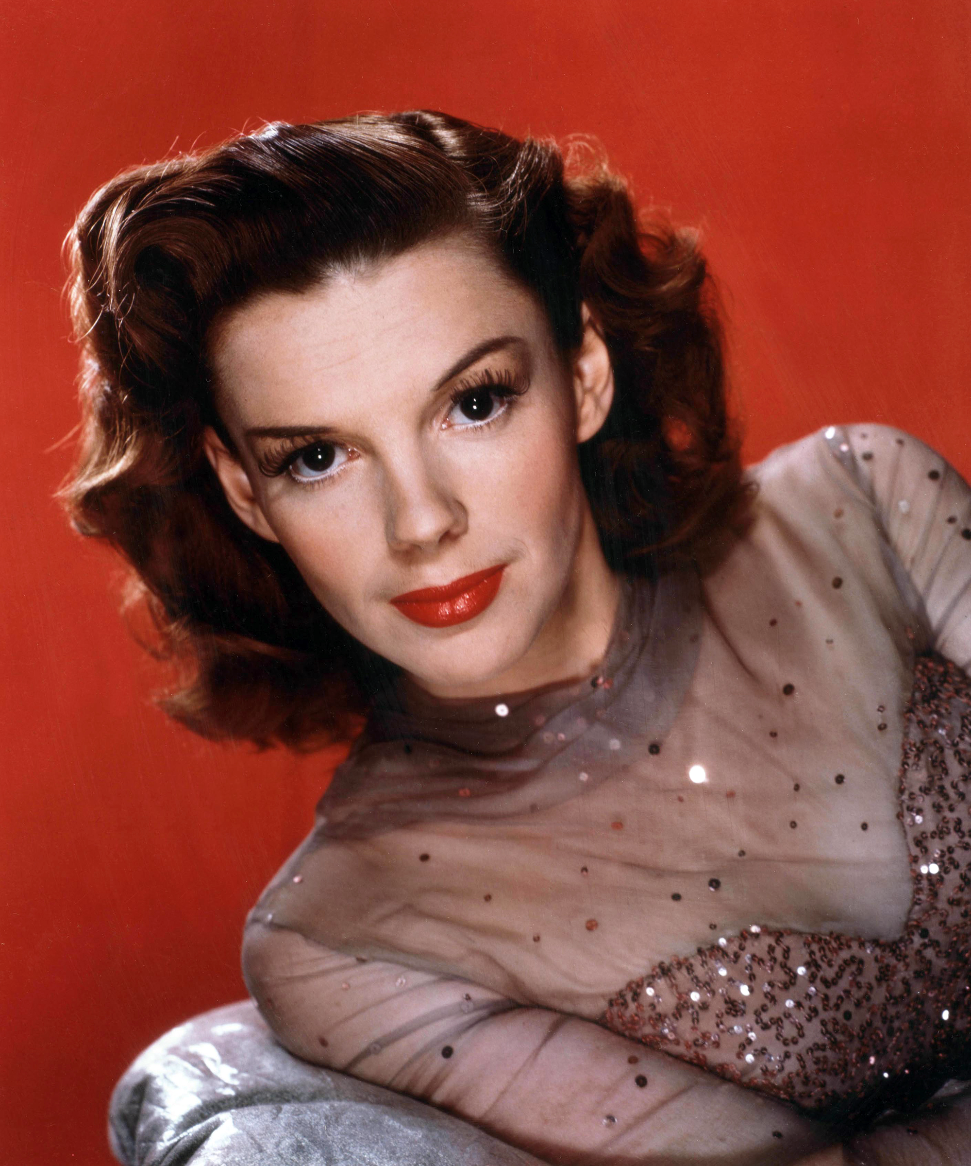 A publicity photo of Judy Garland used in conjunction with The Harvey Girls (1946).